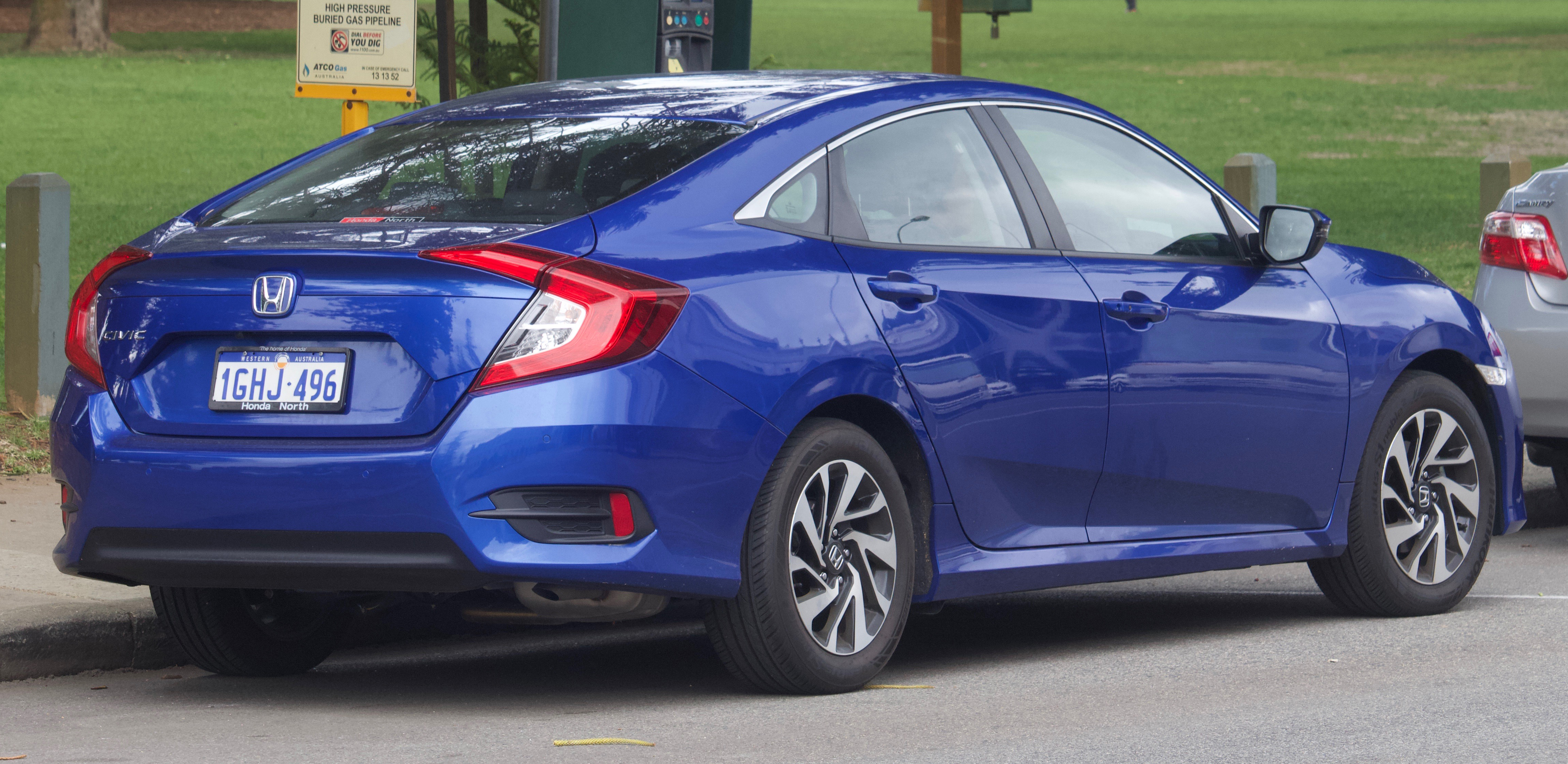 2017 Honda Civic VTi-S sedan. Photographed in Fremantle, Western Australia, Australia.